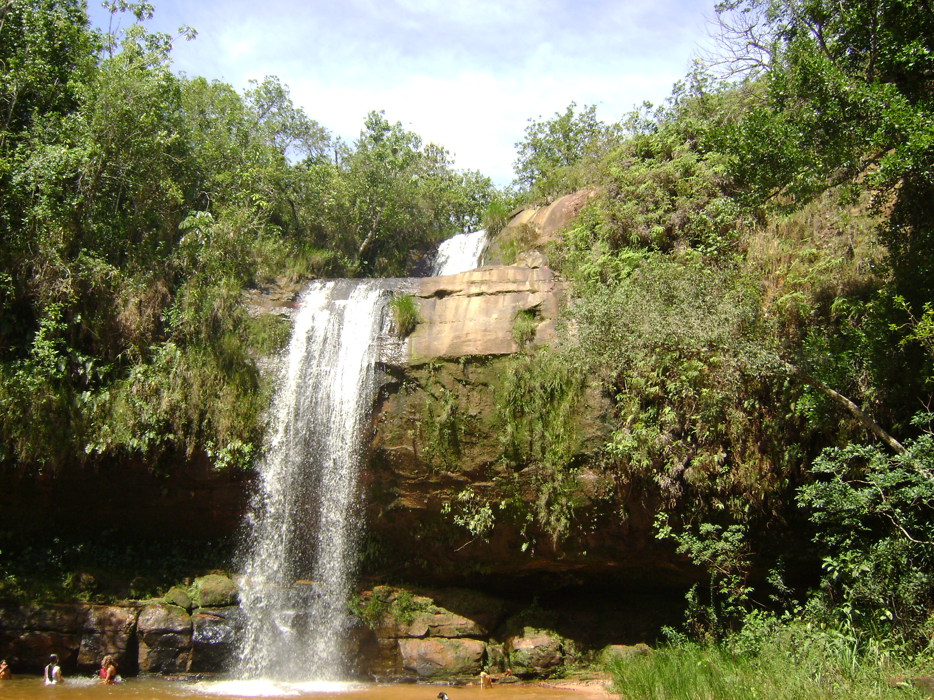 Waterfall of retifica, Monte Santo de Minas, MG. Brazil